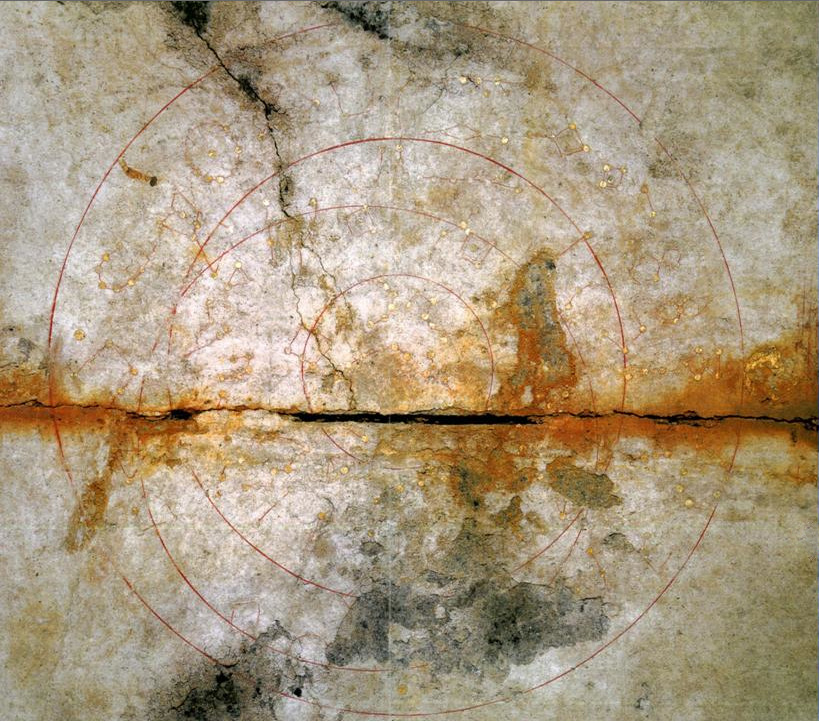 Astronomical chart on ceiling of Kitora Tumulus, Asuka, Nara Prefecture, Japan